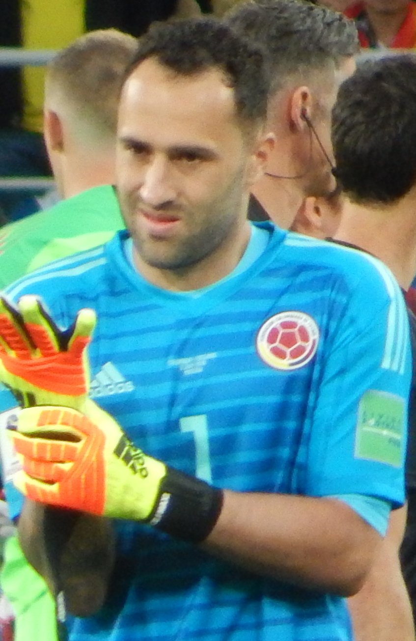 FIFA World Cup 2018, Round of 16, Colombia vs. England